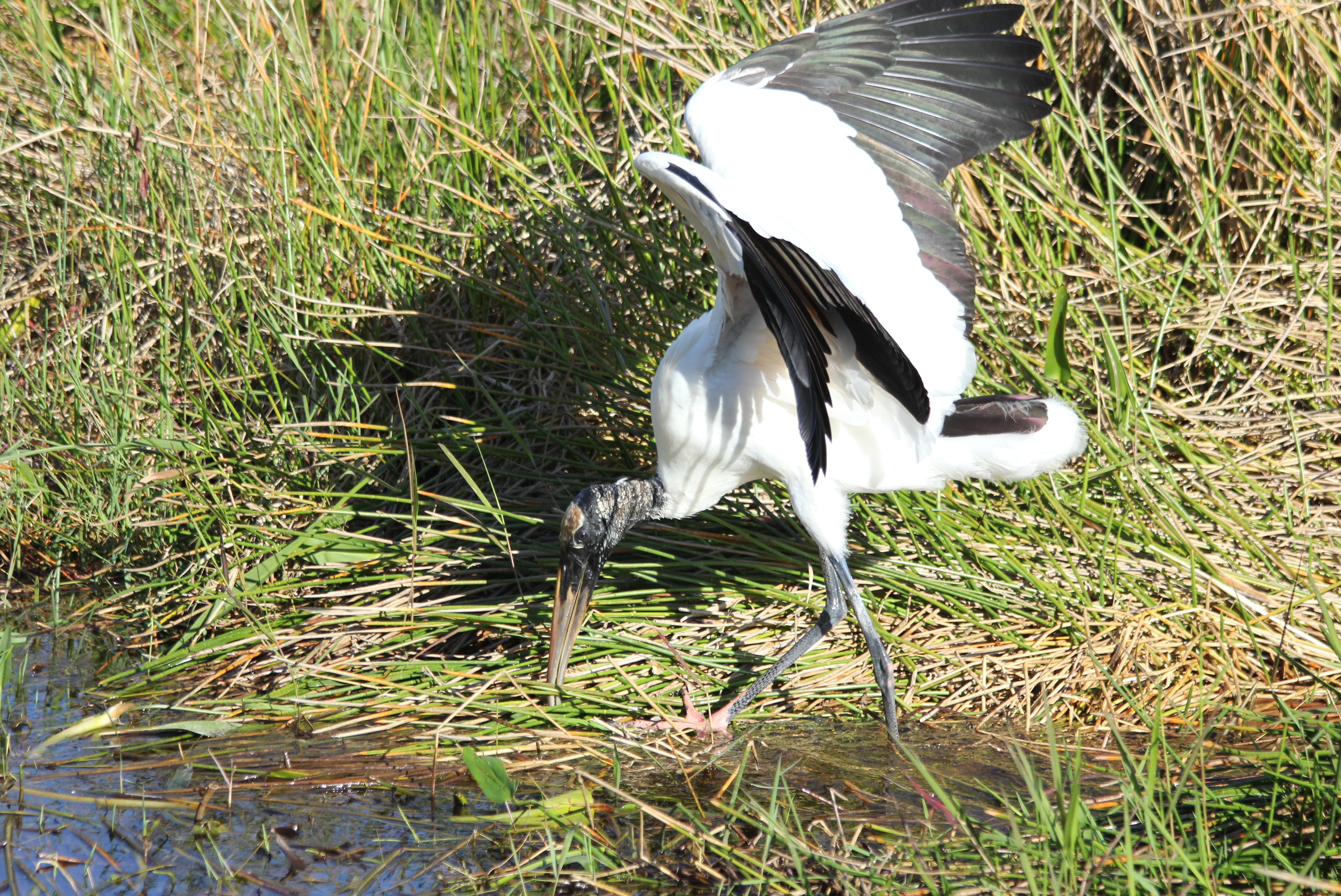 FIELD MARKS-large,long-legged bird; white body,black flight feathers and tail, black legs and pink feet thick,dusky,downward-curving bill adult has bald, blackish gray head; juvenile has grayish brown head and yellow bill